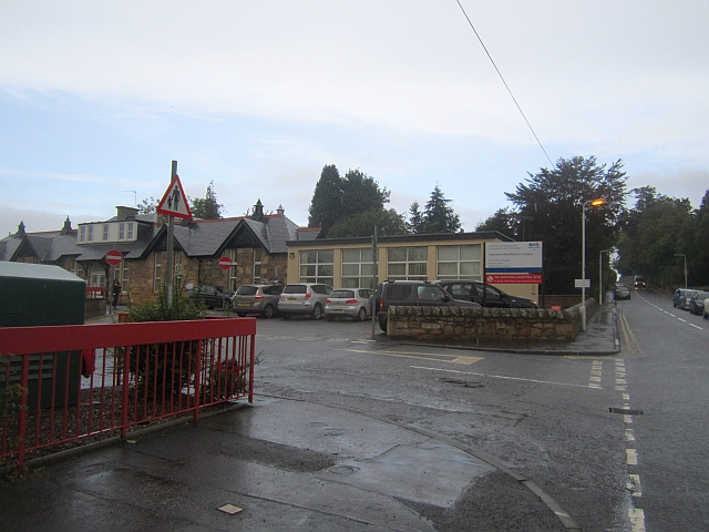 Adamson Health Care Campus